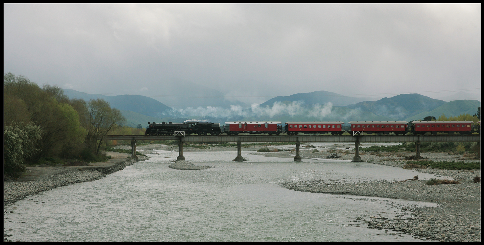 Waingawa Bridge, special steam excursion train going south November 2017 Canon 5D II : Canon EF 100-300 f/4.5-5.6